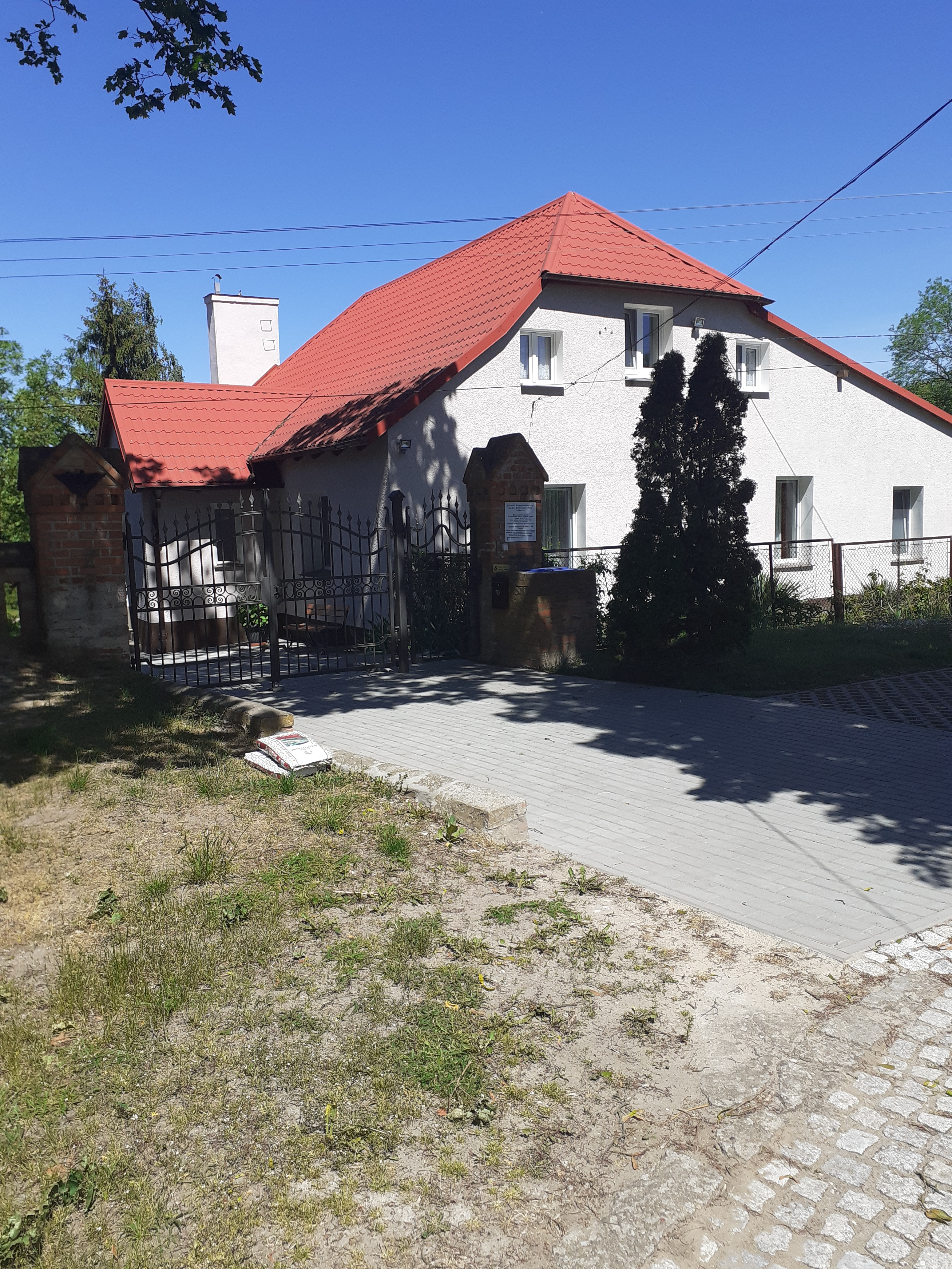 Stara plebania w Wabczu